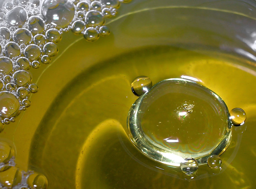 Three types of bubbles: 1)normal bubbles on the surface of soapy water, 2)antibubbles created with soapy water by repeatedly and quickly dipping a small hollow cylinder in and out of the water, 3) normal bubbles under the surface of the antibubbles